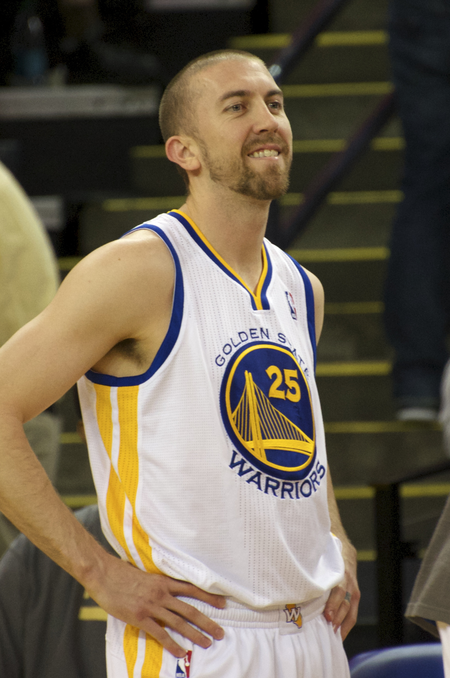 Steve Blake, 2014-04-06, Warriors vs Jazz, Oracle Arena, Oakland California